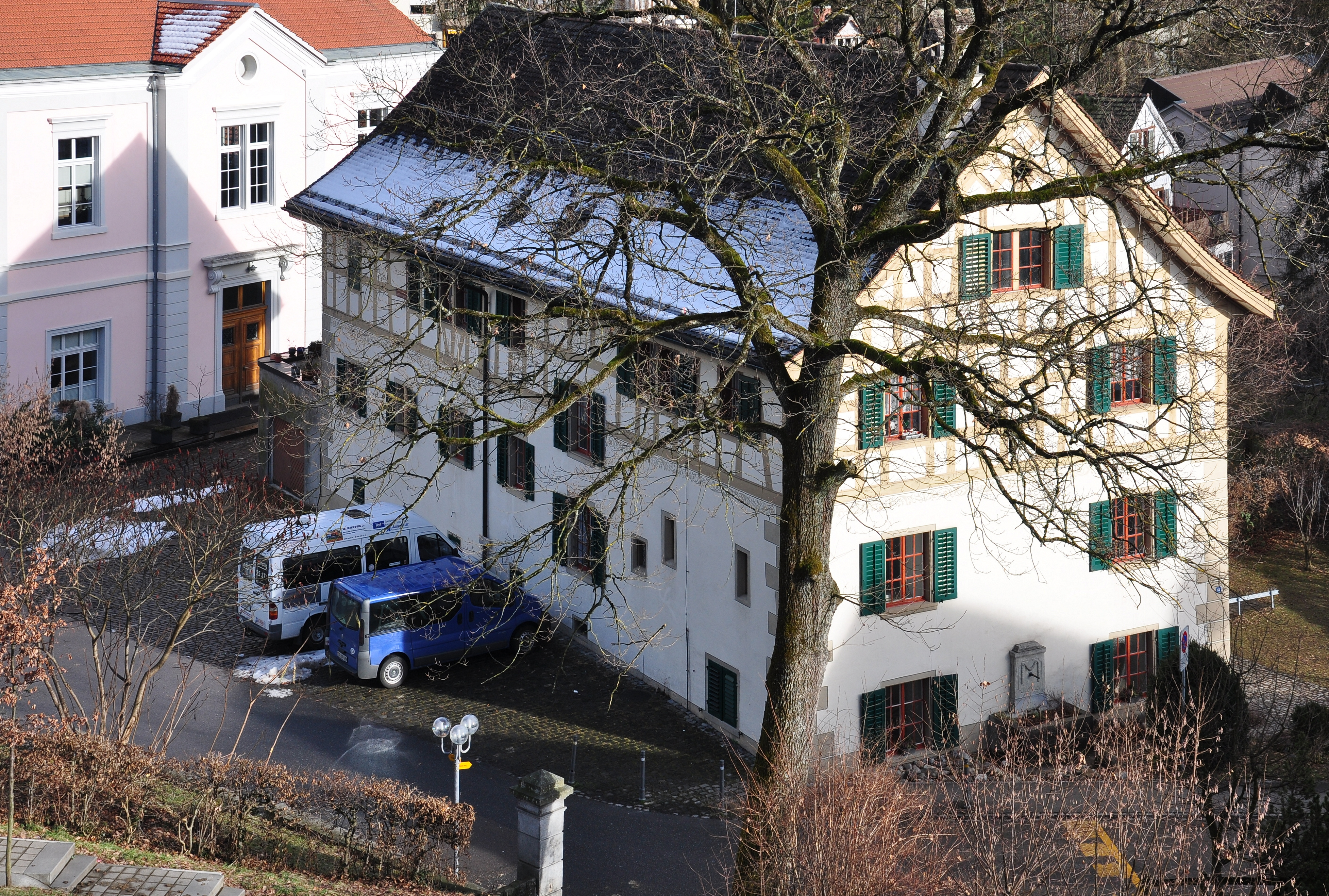 Rüti (Switzerland) : Former Rüti Abbey, as of today the Protestant church's rectory as seen from Schanz hill.